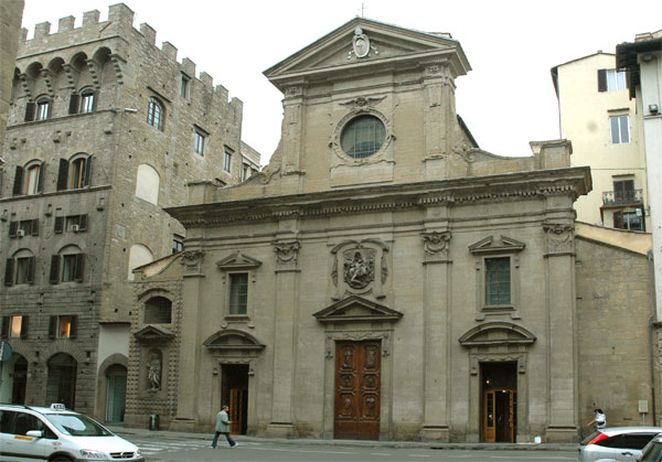 Santa Trinita. Facade. Florence